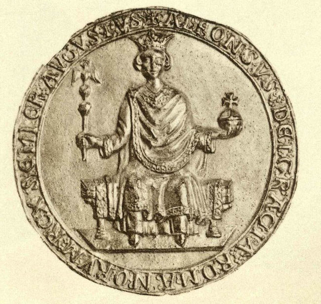 This is a scan of the historical document